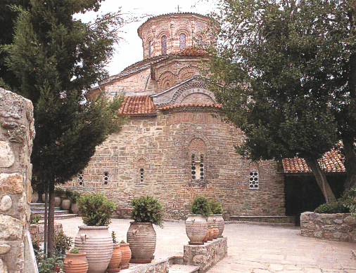 Megala Meteora